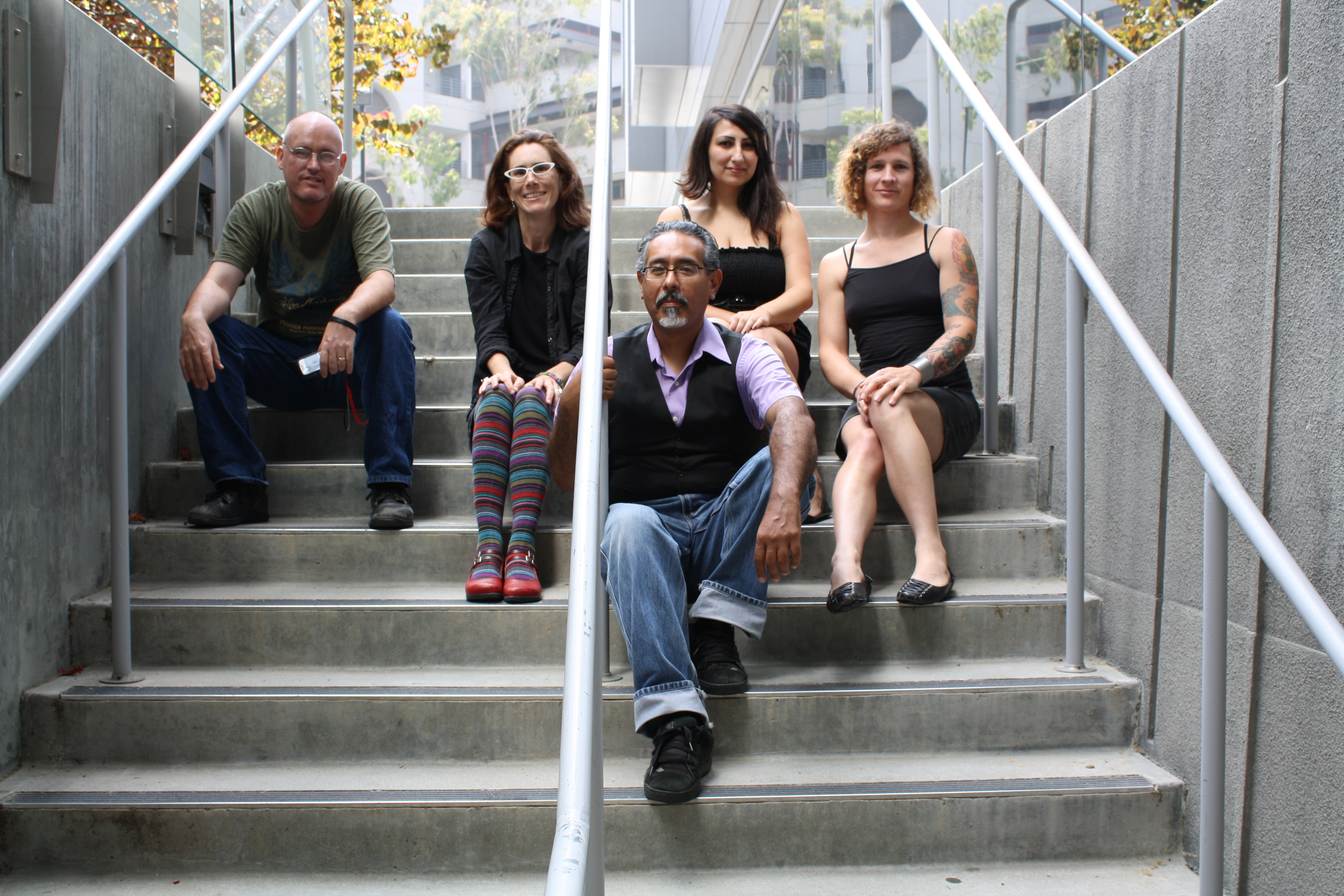 Photo of Electronic Disturbance Theater taken with other photos by Kinsee Morlan for San Diego City Beat.